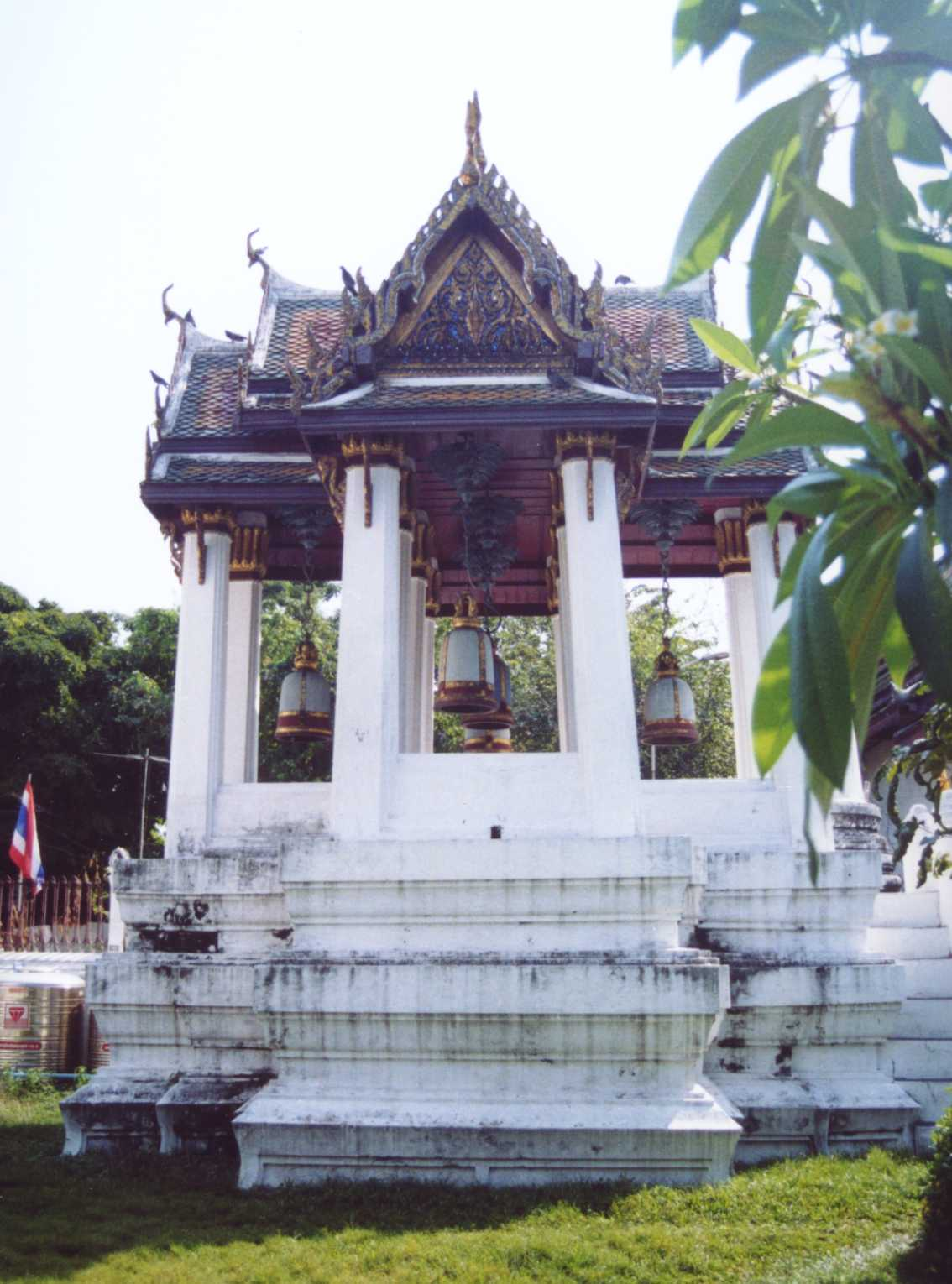 Wat Rakang (วัดระฆัง), Bangkok Noi district, Bangkok, Thailand. Photo by User:Ahoerstemeier taken on January 24 2006.